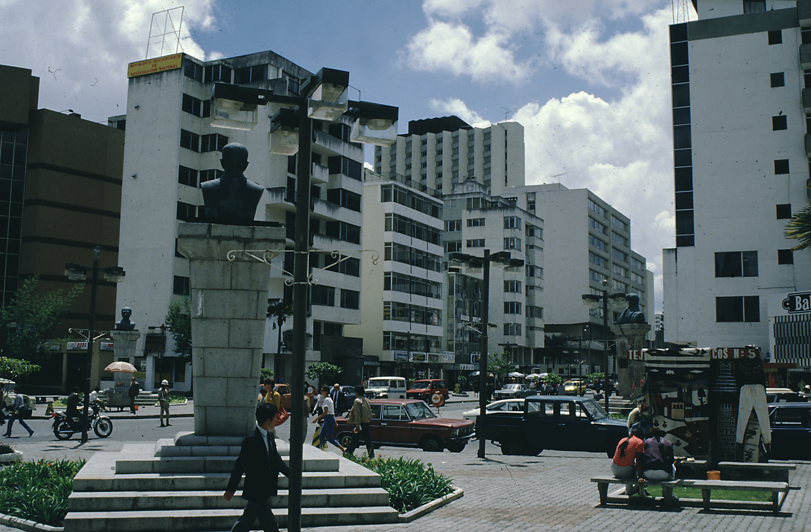 This photo has been scanned with a Reflecta DigitDia 6000 image scanner. Personality rights warningAlthough this work is freely licensed or in the public domain, the person(s) shown may have rights that legally restrict certain re-uses unless those depicted consent to such uses. In these cases, a model release or other evidence of consent could protect you from infringement claims.